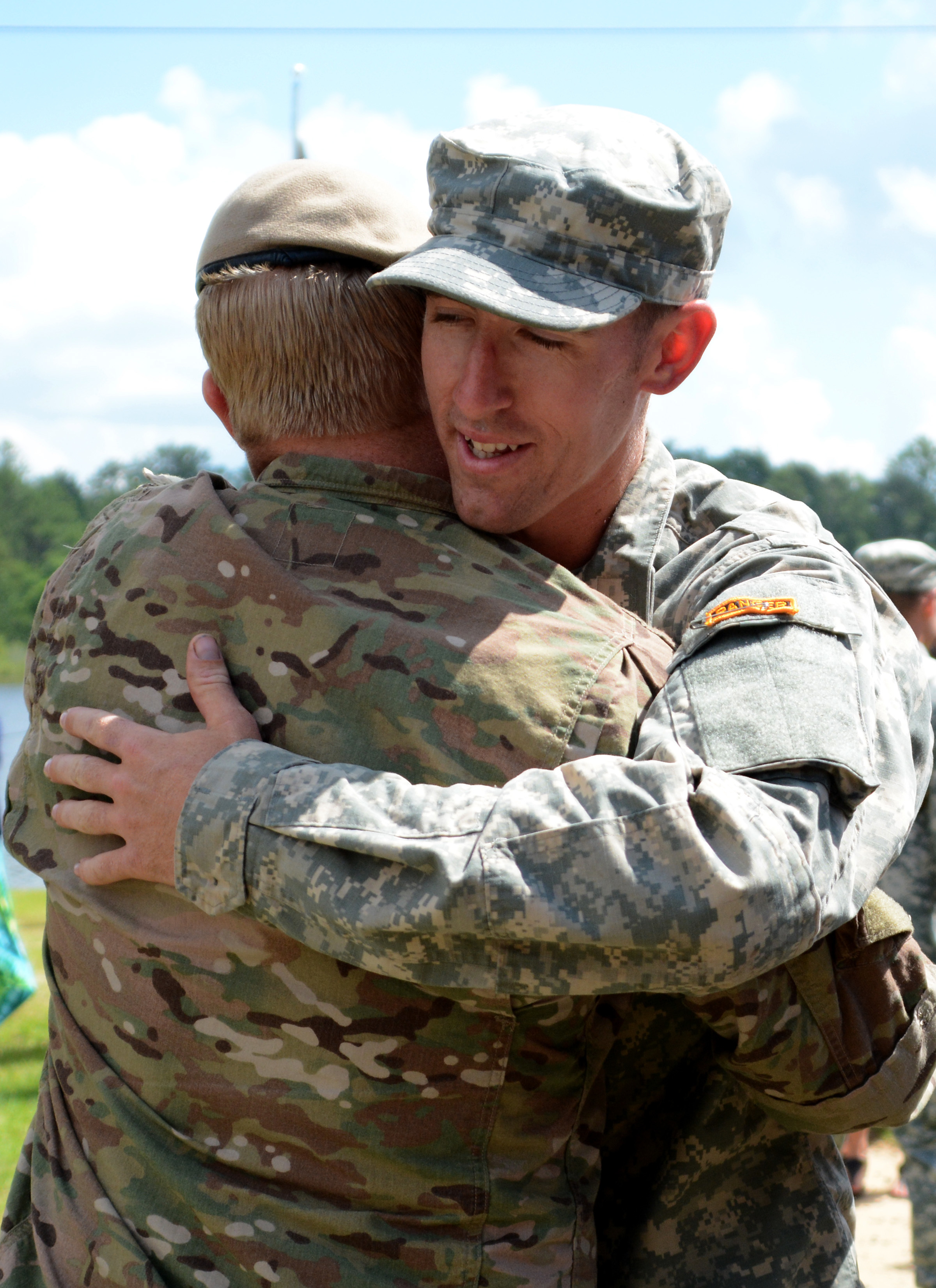 A Ranger from the 75th Ranger Regiment is congratulated by his leaders after receiving his Ranger Tab during the U.S. Army Ranger School graduation at Fort Benning, Ga., June 19. (Photo by Pfc. Parker Johnson, 75th Ranger Regiment documentation specialist)